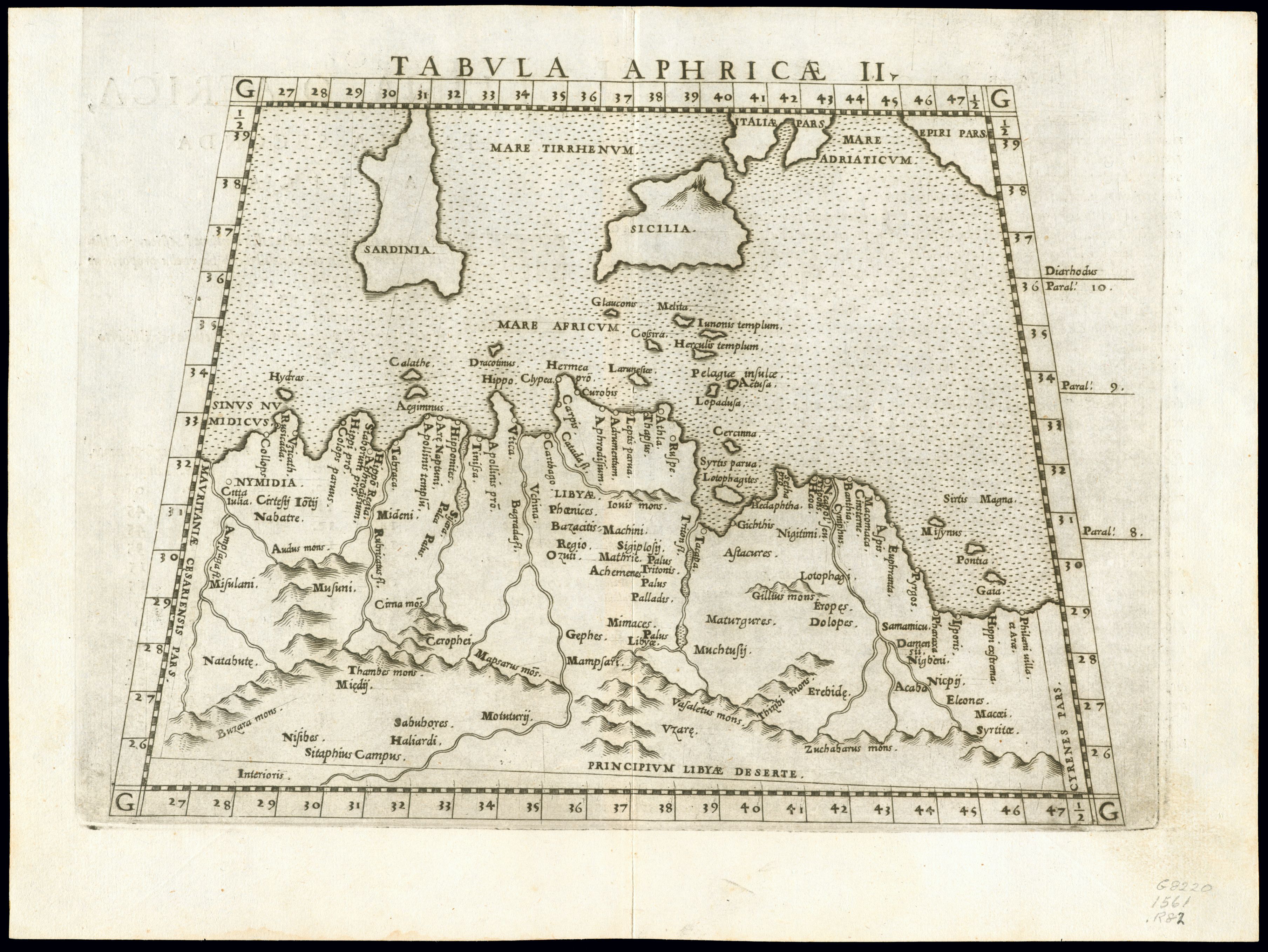 Relief shown pictorially. Map covers central North Africa. Detached from La geografia di Claudio Tolomeo Alessandrino, and based on a 1548 edition by Giacomo Gastaldi. (Description from:North West University Library)